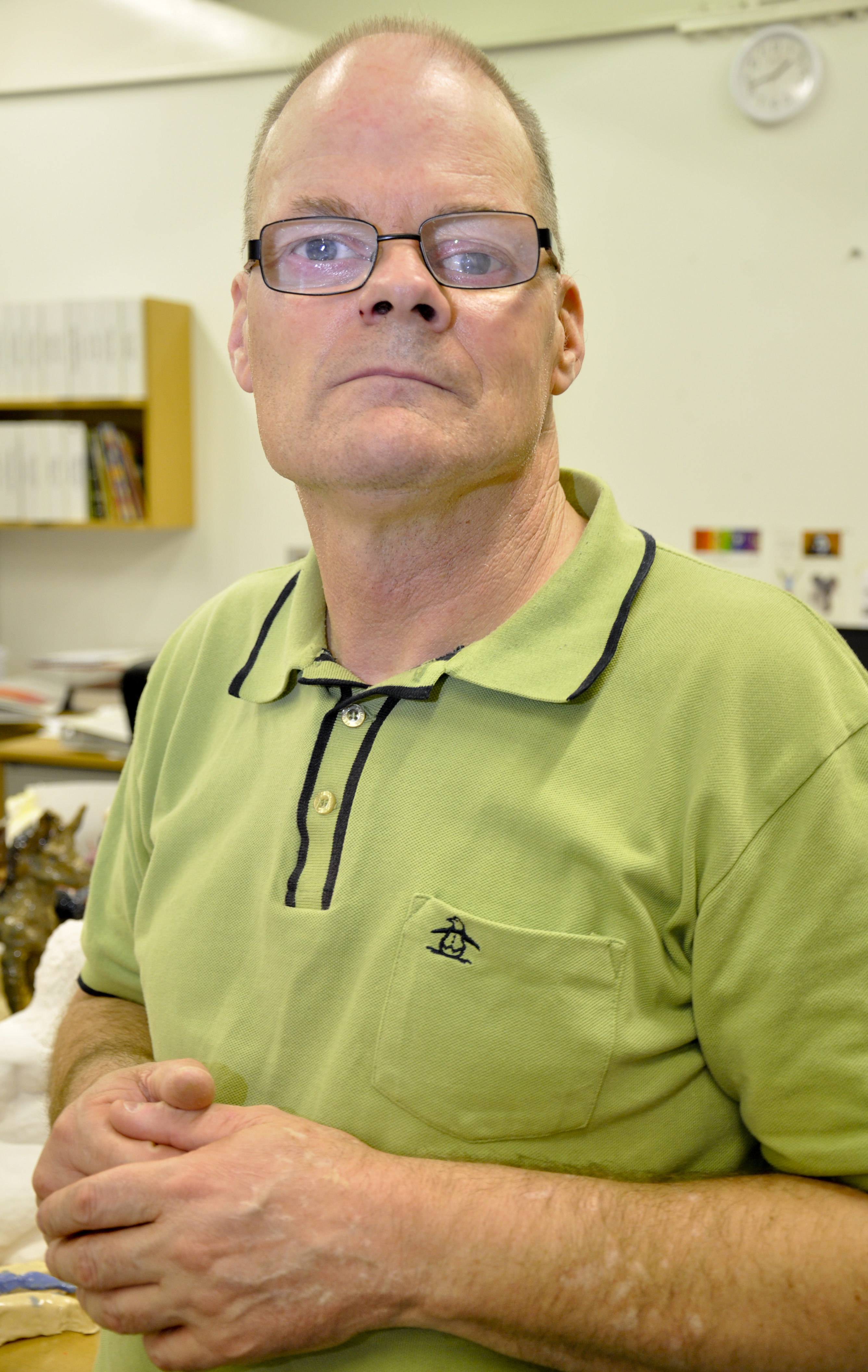 Image of Australian artist Alan Constable.